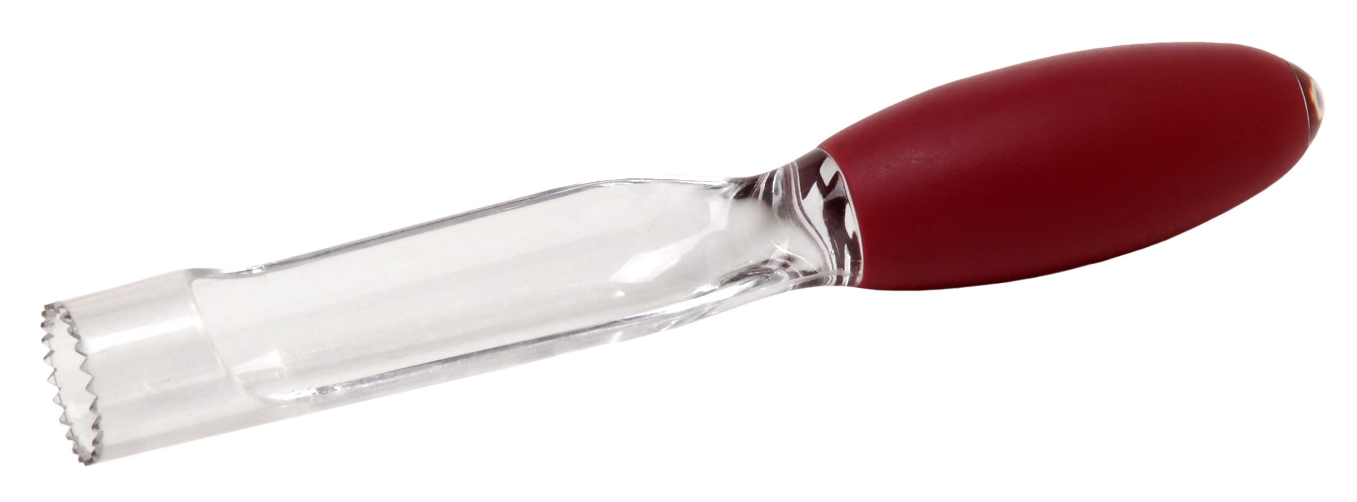 A clear plastic apple corer with a silicone handle.